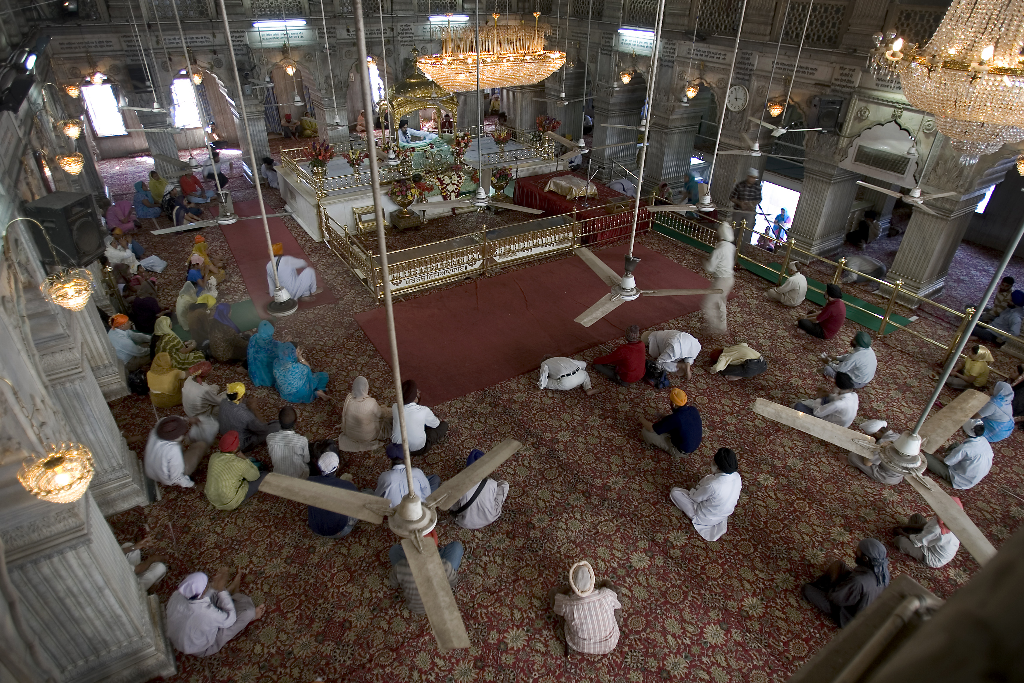 Gurdwara Sri Guru Sis Ganj Sahib temple India Delhi Chandni Chowk